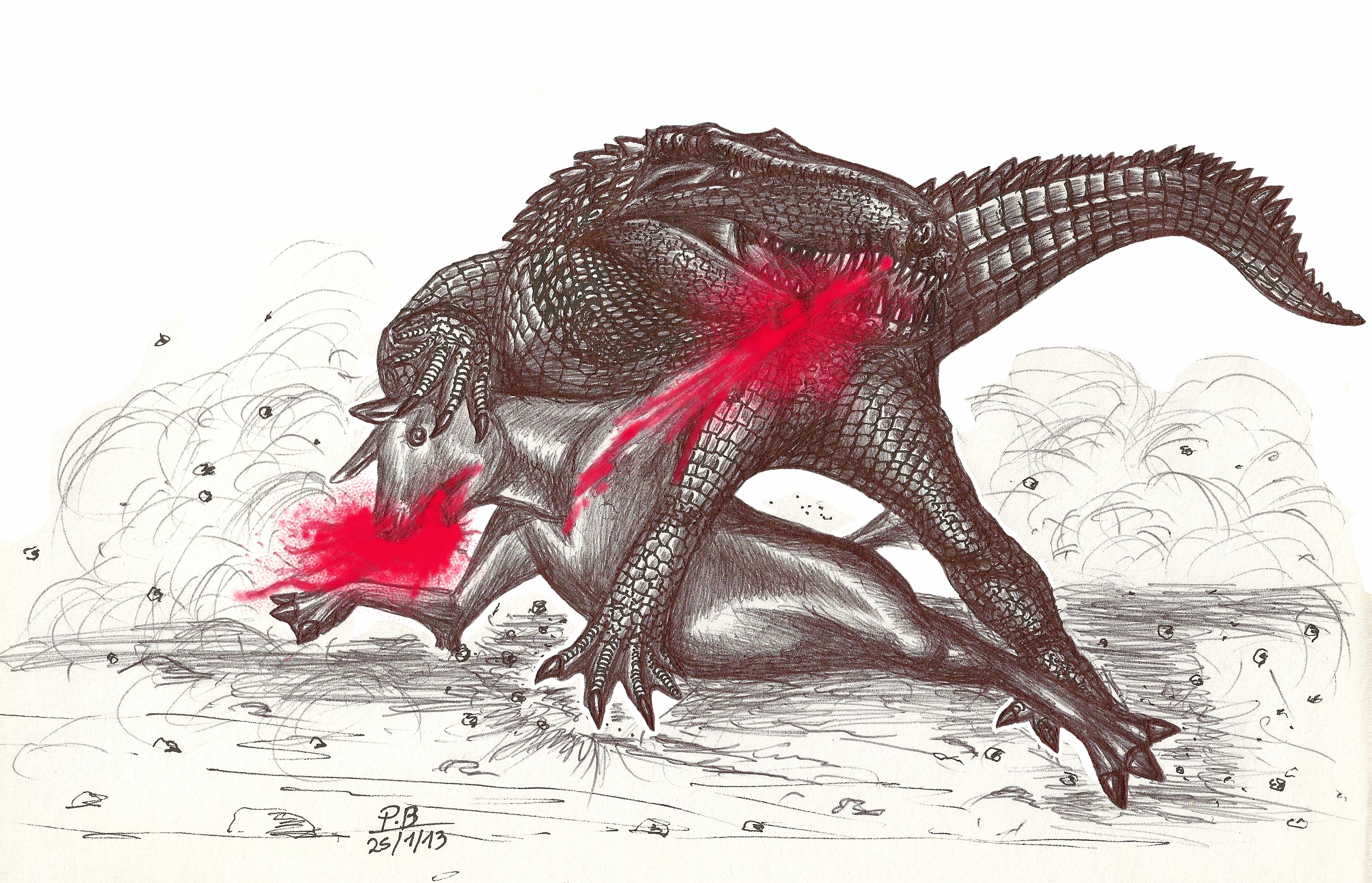 The crocodylomorph Bretesuchus attacking an hypothetical notoungulate mammal.